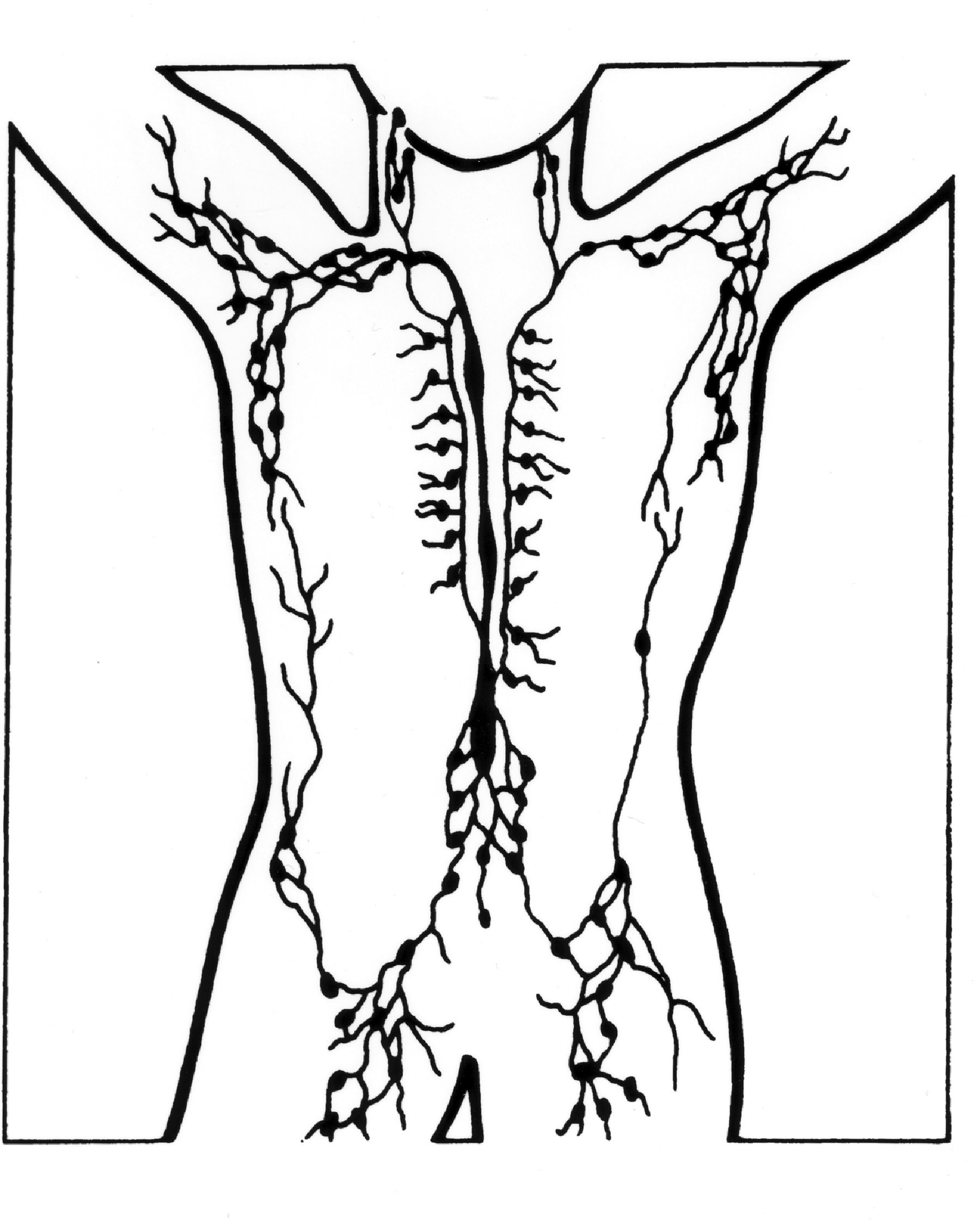 Title Lymph Nodes Illustration Description Lymphatic system (neck to upper thigh shown), which is part of the body's immune system. Hodgkin's disease is a type of lymphoma. Clusters of lymph nodes are found in the underarm, groin, neck, and abdomen. Topics/Categories Anatomy -- Lymphatic System Historical -- Graphics Type B&W, Illustration Source